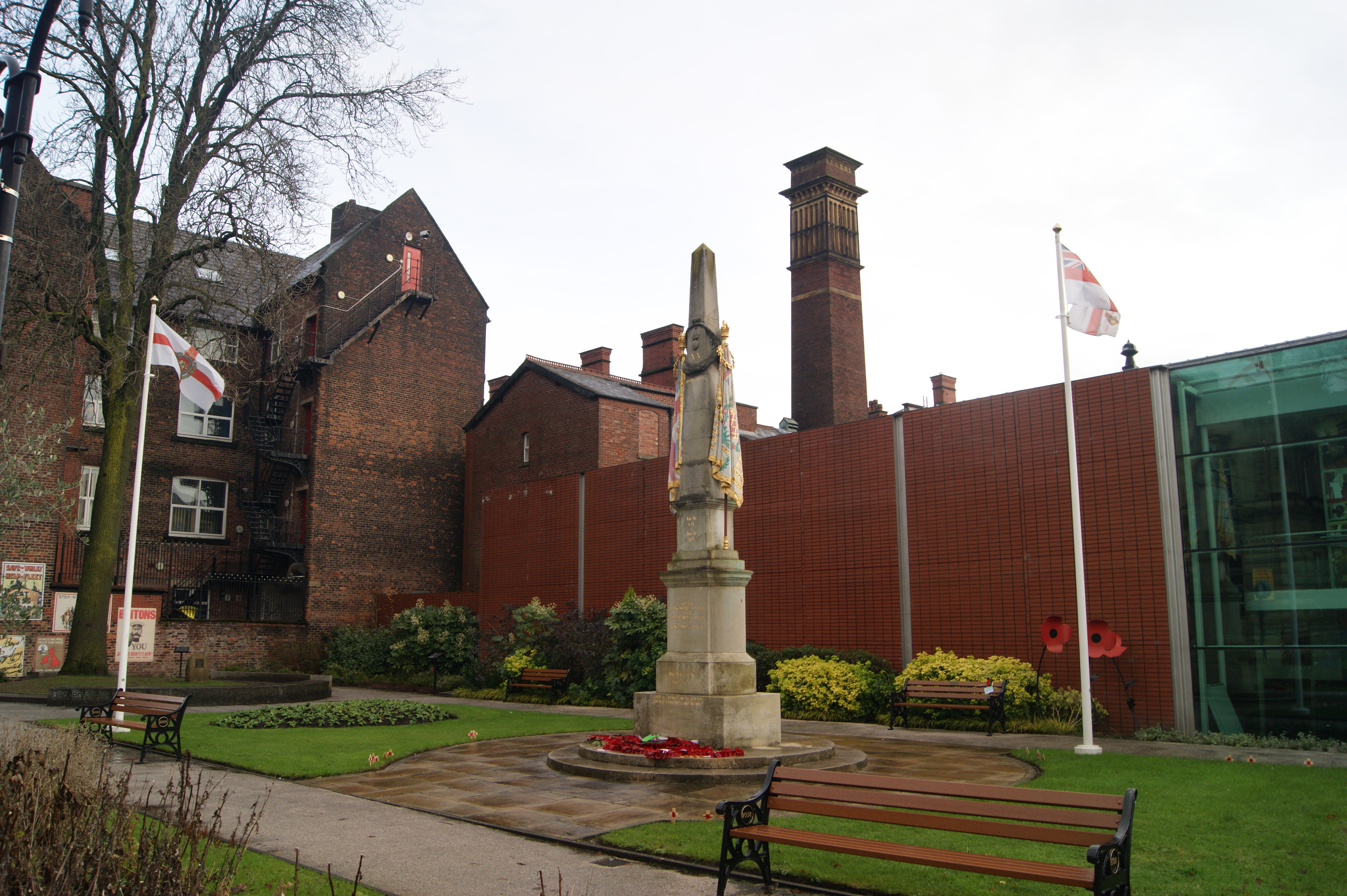 The making of this file was supported by Wikimedia UK. The Lancashire Fusiliers War Memorial, now situated in Gallipoli Gardens, outside the Fusilier Museum, in Bury, Greater Manchester (formerly in Lancashire), England.